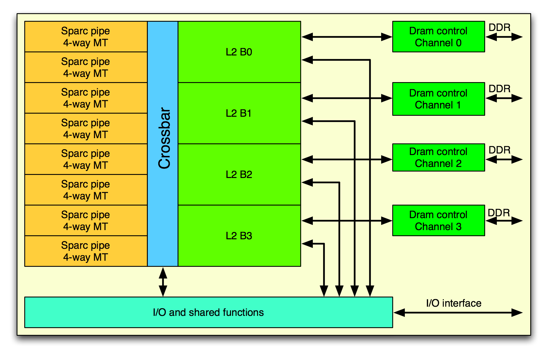 Hardware architecture of UltraSPARC T1 (Niagara) processor